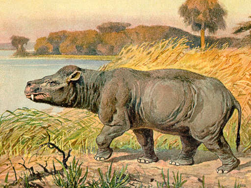 Coryphodon